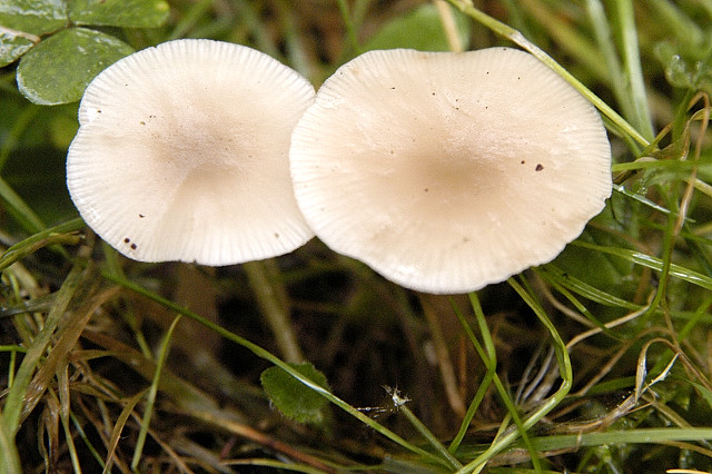 Clitocybe fragrans from Commanster, Belgium. If you think this is a different taxon, please contact James Lindsey.